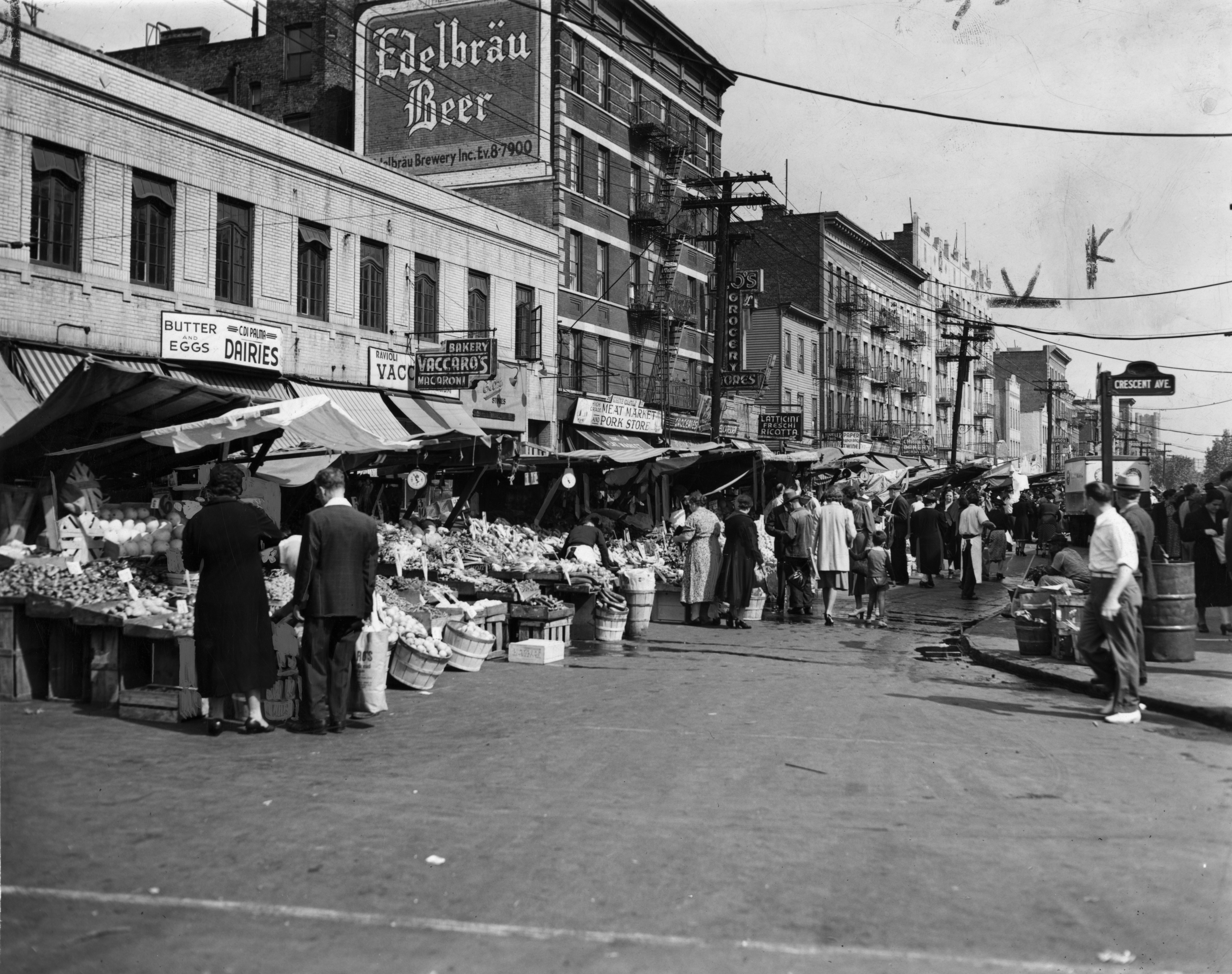 Photograph of street fair at Arthur and Crescent Avenues, Bronx, NY, by staff photographer of NY World Telegraph and Sun.